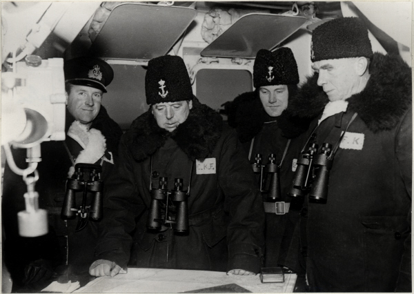 Officers aboard the coastal defence ship HSwMS Sverige in 1939: from left Lieutenant A.O.J. Falkman, Chief of the Coastal Fleet, Rear Admiral Gösta Ehrensvärd (1885-1973), Lieutenant B. Bertelsson (1902-1977) and Captain Helge Strömbäck (1889-1960).